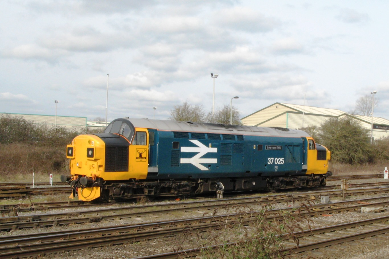 Heritage diesel 37025 in the siding used by Colas Rail at Westbury in Wiltshire.